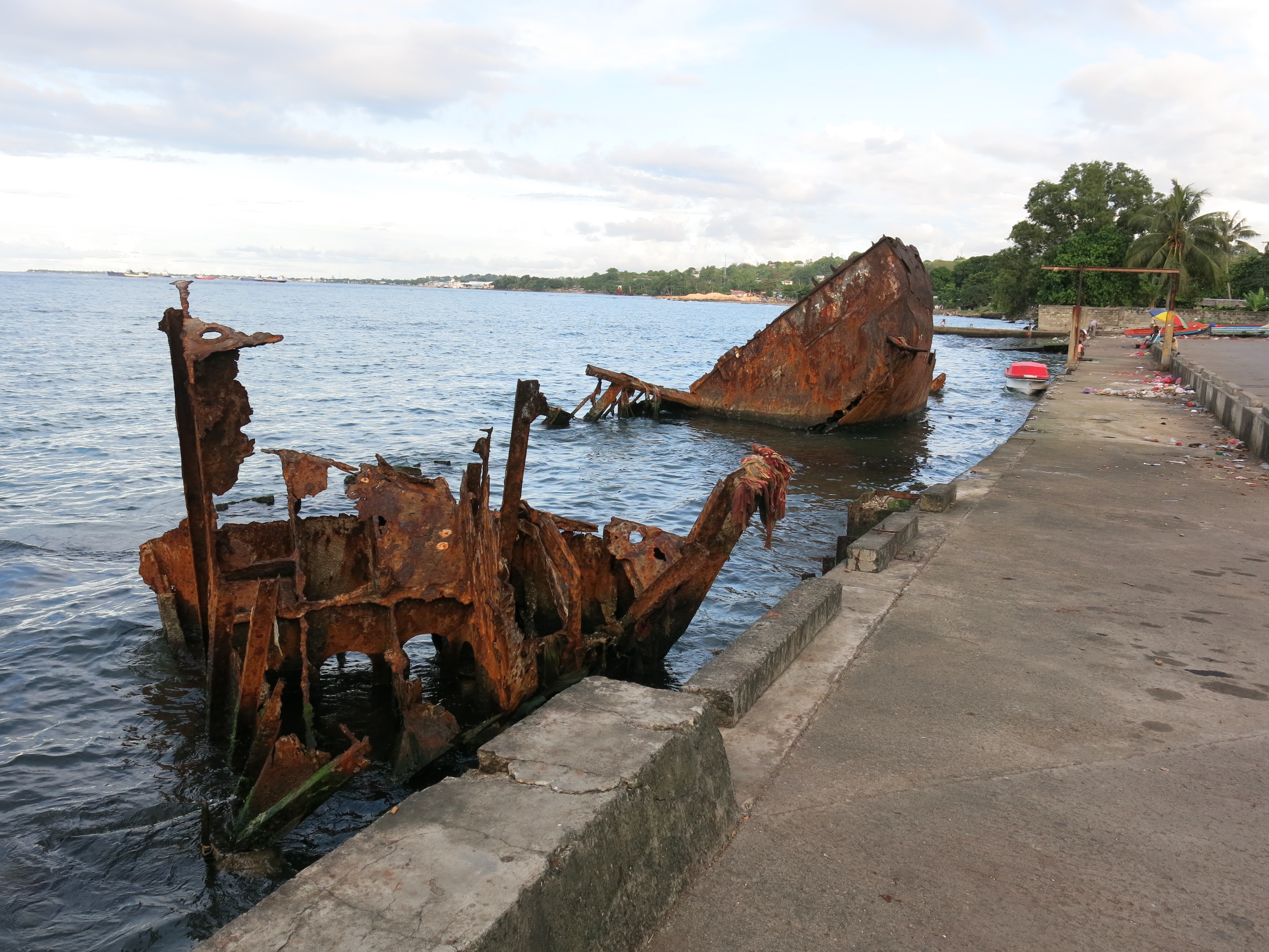 Sir Thomas Koh Chan's shipwreck "MV Yandina" at the jetty of Honiara Central Market, Solomon Islands on 25 March 2016.